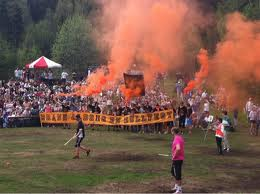 Brännbollsyranpublik